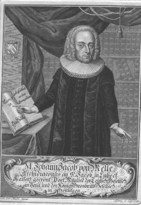 Portrait of deJohann Jacob von Melle (1721-1752)